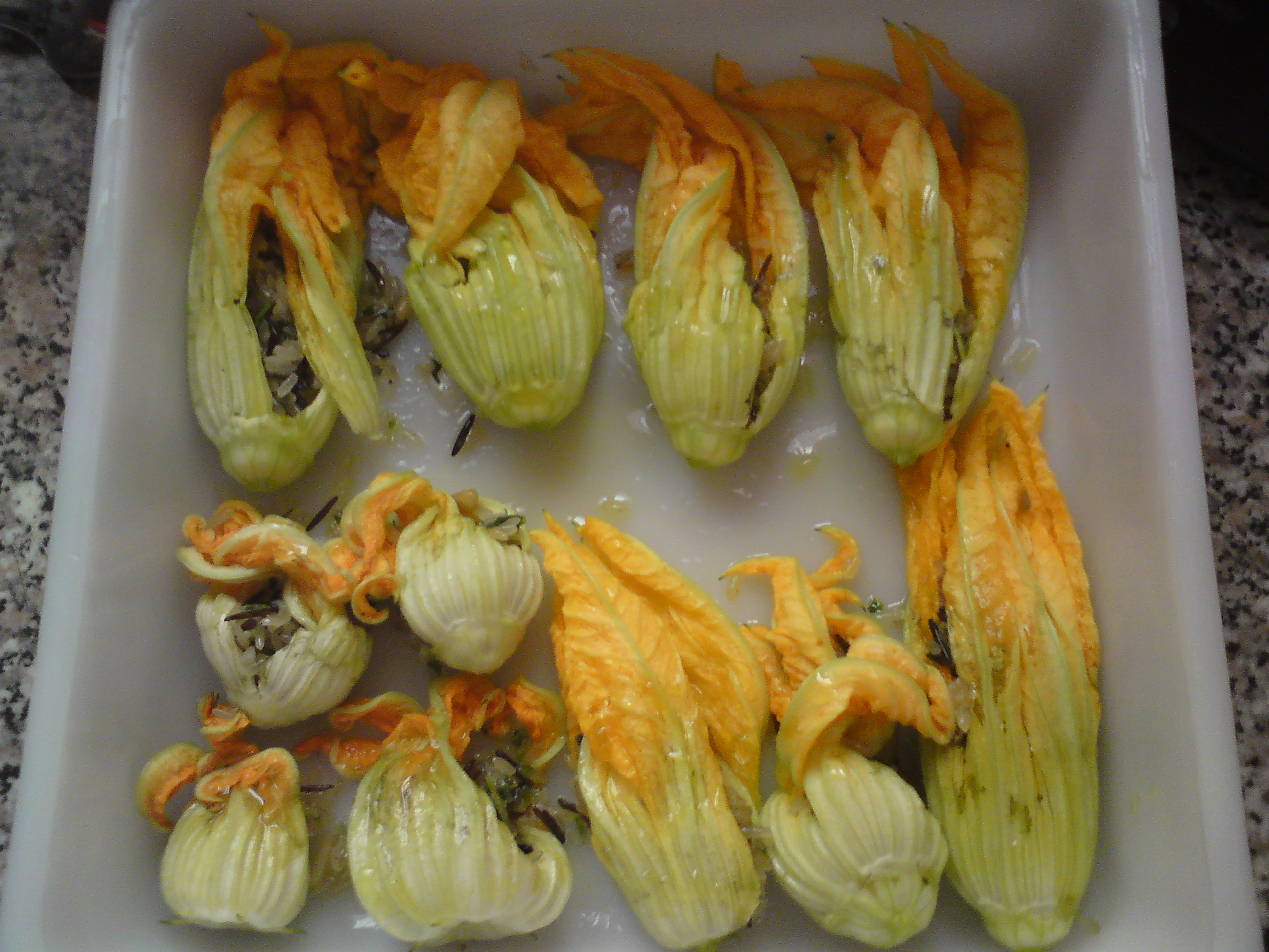 "Kolokythoanthoi" (squash flowers, from the stem of the plant) and "kolokythokorfades" (squash flowers off the top of the squash vegetable) are stuffed with a mixture of rice, onion and herbs and cooked in the oven.